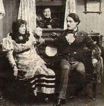 Still from the American biography film The Raven (1915) with Warda Howard and Henry B. Walthall, on page 4 of the December 1915 Movie Pictorial.